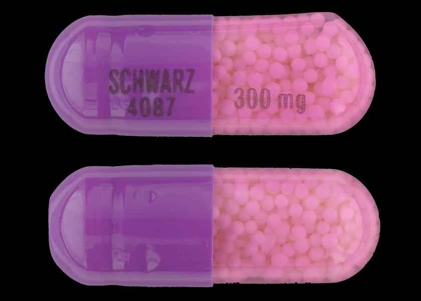 Drug Name: 24 HR Verelan 300 MG Extended Release Capsule *Ingredient(s): Verapamil Drug Label Imprint: SCHWARZ;4087;300;mg Color(s): Purple Shape: Capsule Size (mm): 23.00 Score: 1 Inactive Ingredient(s): ShowHide d&c red no. 28 / fd&c blue no. 1 / fd&c red no. 40... d&c red no. 28 / fd&c blue no. 1 / fd&c red no. 40 / fumaric acid / gelatin / povidone / shellac / silicon dioxide / sodium lauryl sulfate / starch, corn / sucrose / talc / titanium dioxide Drug Label Author: SCHWARZ PHARMA, LLC, A Subsidiary of UCB, Inc. DEA Schedule: Non-scheduled